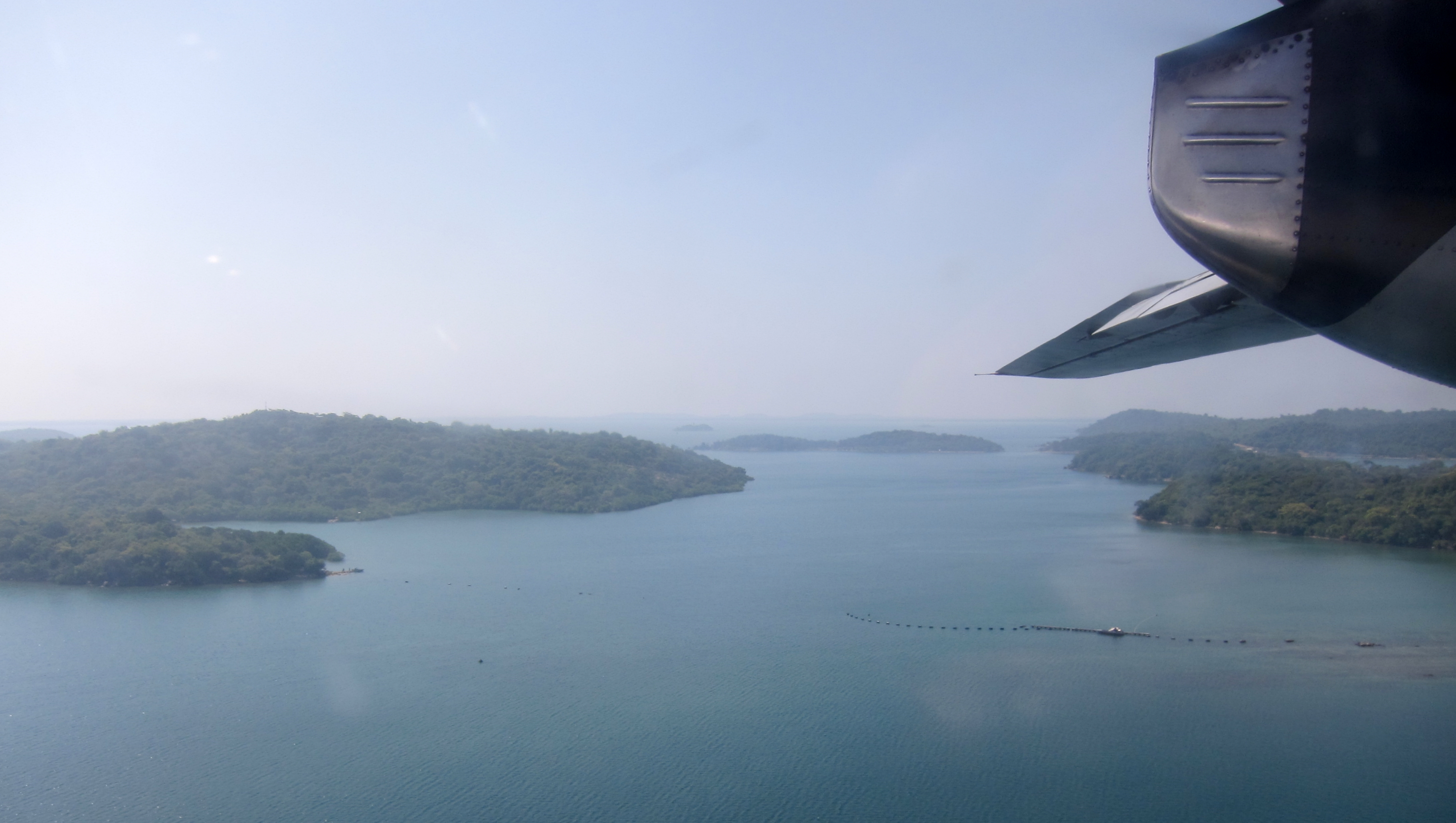 The northern indentation of Trincomalee Bay, also known as China Bay